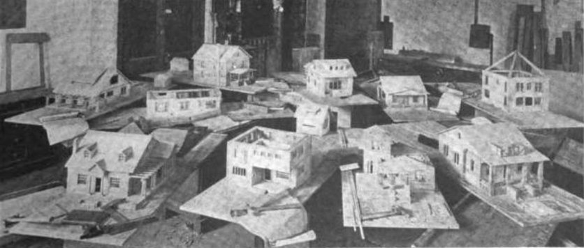 A close up of Tiny Town houses in construction showing the framing